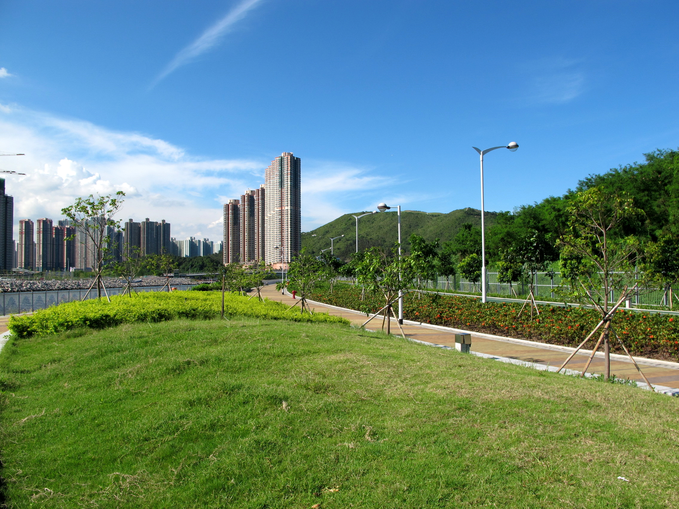 Tseung Kwan O South Waterfront Promenade